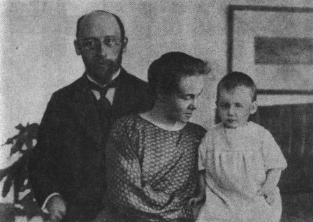 Dutch physicist Antonius van den Broek (1870-1926) with his wife and son